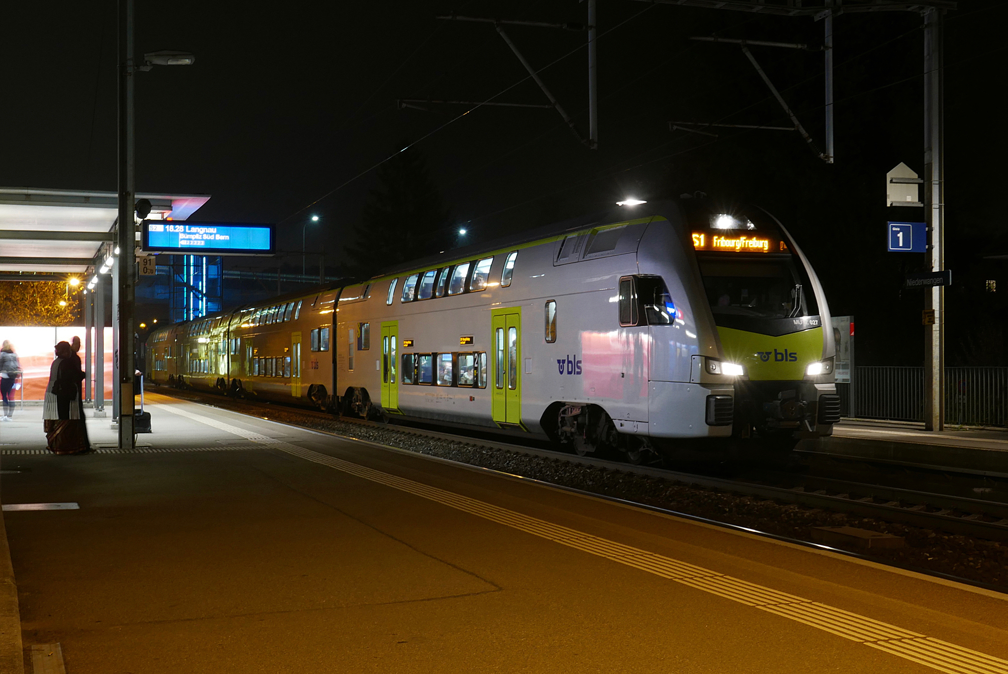 BLS RABe 515 027 calling at Niederwangen train station while travelling from Thun to Fribourg/Freiburg as S1 15170